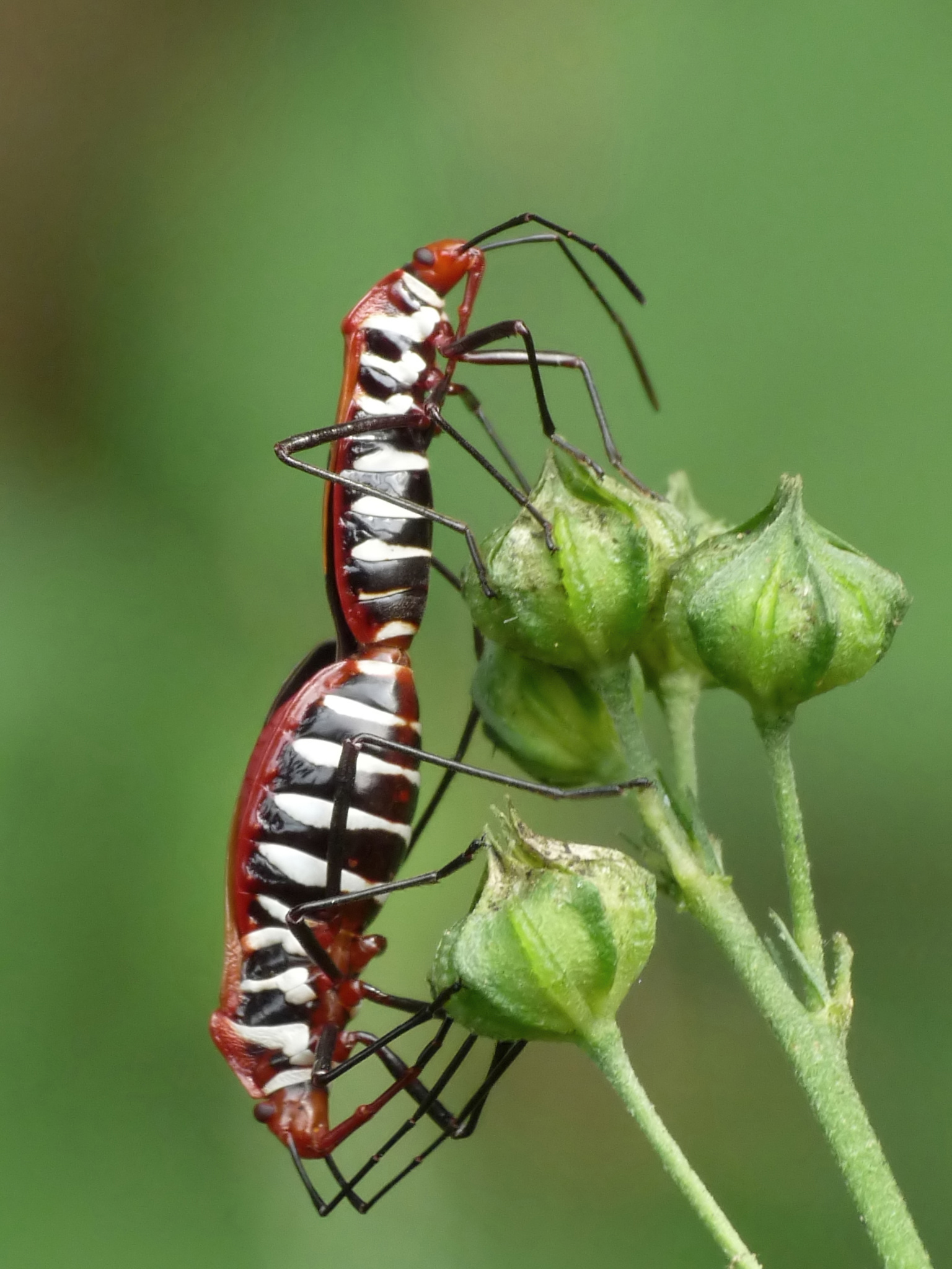 Red Cotton Bug is a true bug in Pyrrhocoridae family. They generally mate in April and May. Their diet consists primarily of seeds from mallows. They can be seen in tandem formation when mating which can take from 12 hours up to 7 days. The long period of copulating is probably used by the males as a form of ejaculate-guarding under high competition with other males. Taken at Kadavoor, Kerala, India.